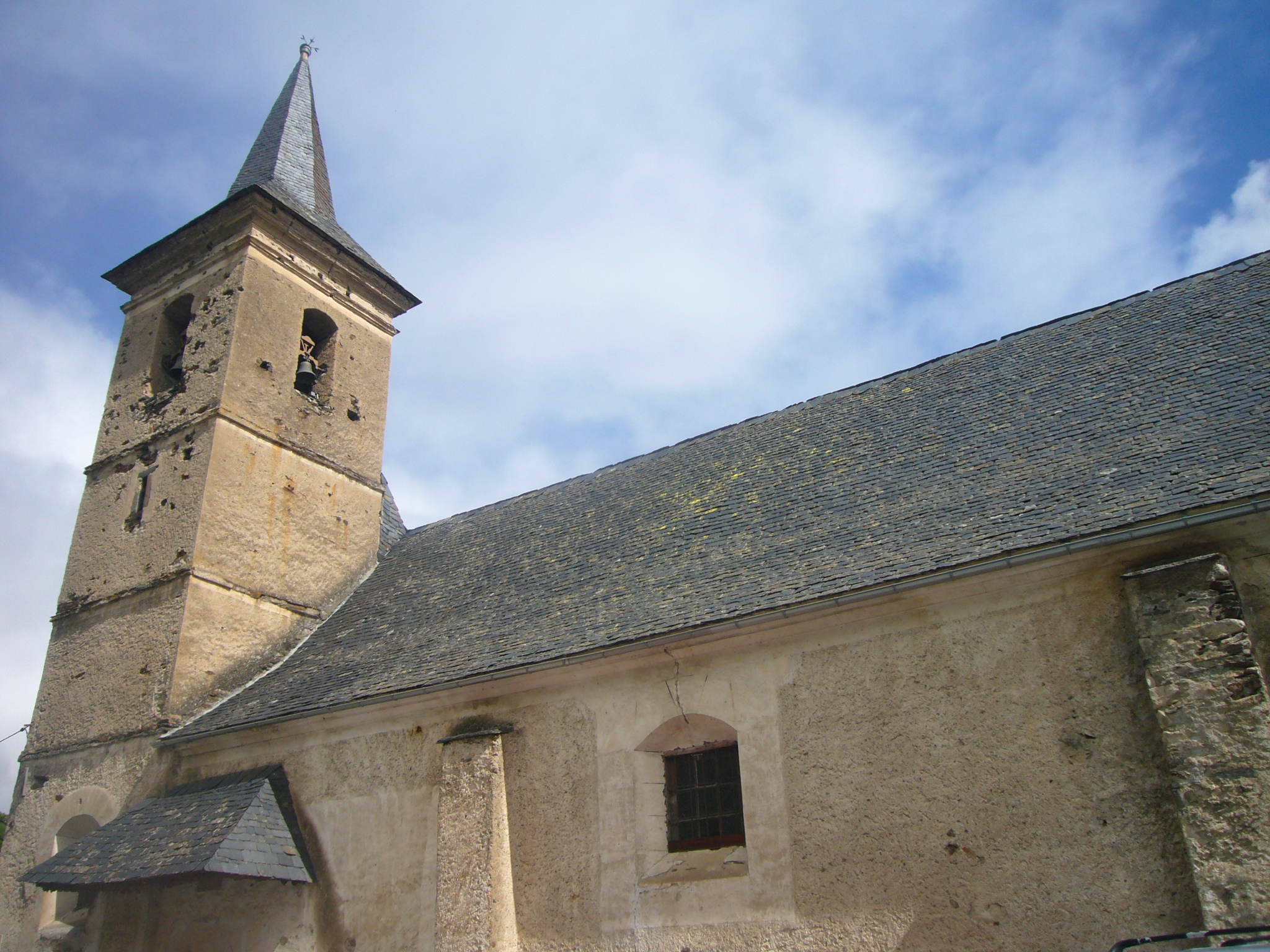 Es Bòrdes (church)